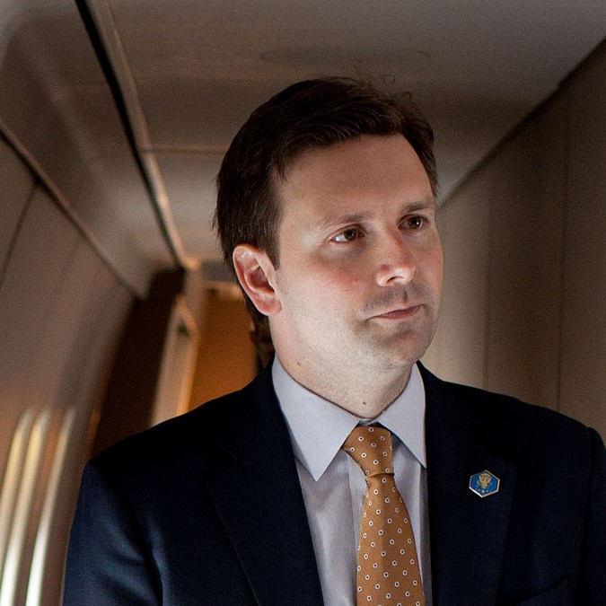 President Barack Obama talks with Principal Deputy Press Secretary Josh Earnest aboard Air Force One during a flight to Toledo, Ohio, June 3, 2011